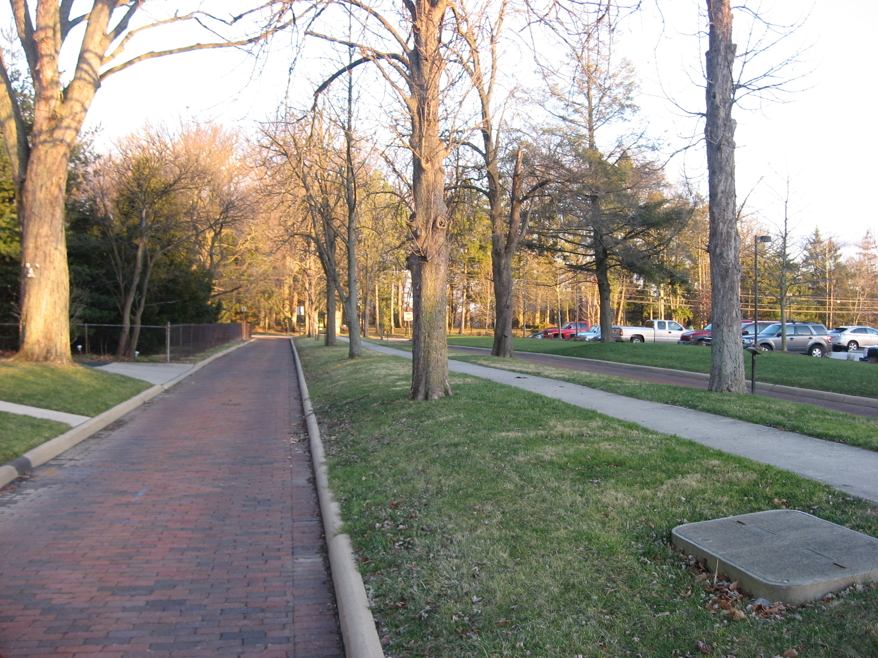 Overview of the McKinley Memorial Parkway, looking eastward from the Soldiers Memorial Parkway, in Fremont, Ohio, United States. Built in 1918, the parkways are is listed on the National Register of Historic Places.